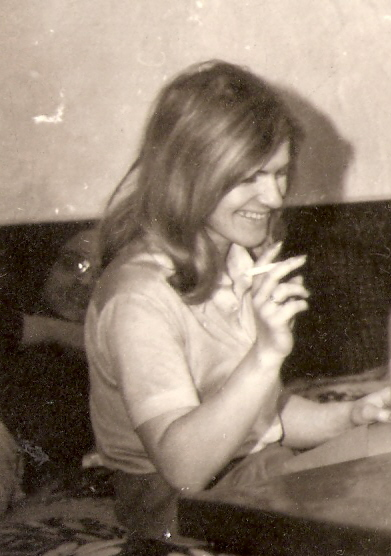 A picture of Helga Voci An image of Helga Voci